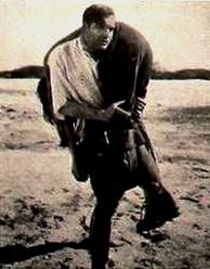 Still from the American film Captain Swift (1920) with Earle Williams, page 3110 of the April 3, 1920 Motion Picture News.